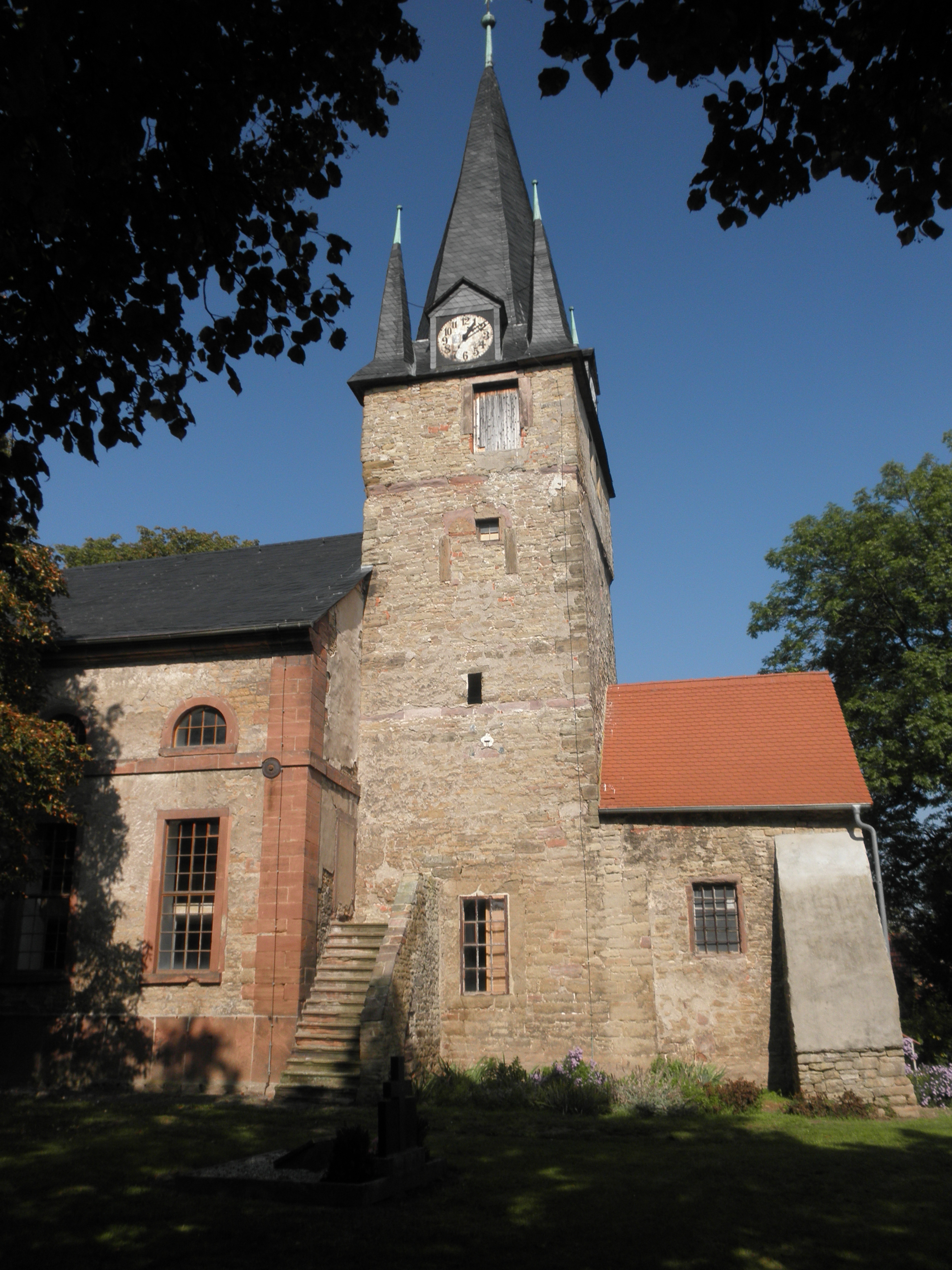 Church in Reinsdorf (Thüringen) in Thuringia